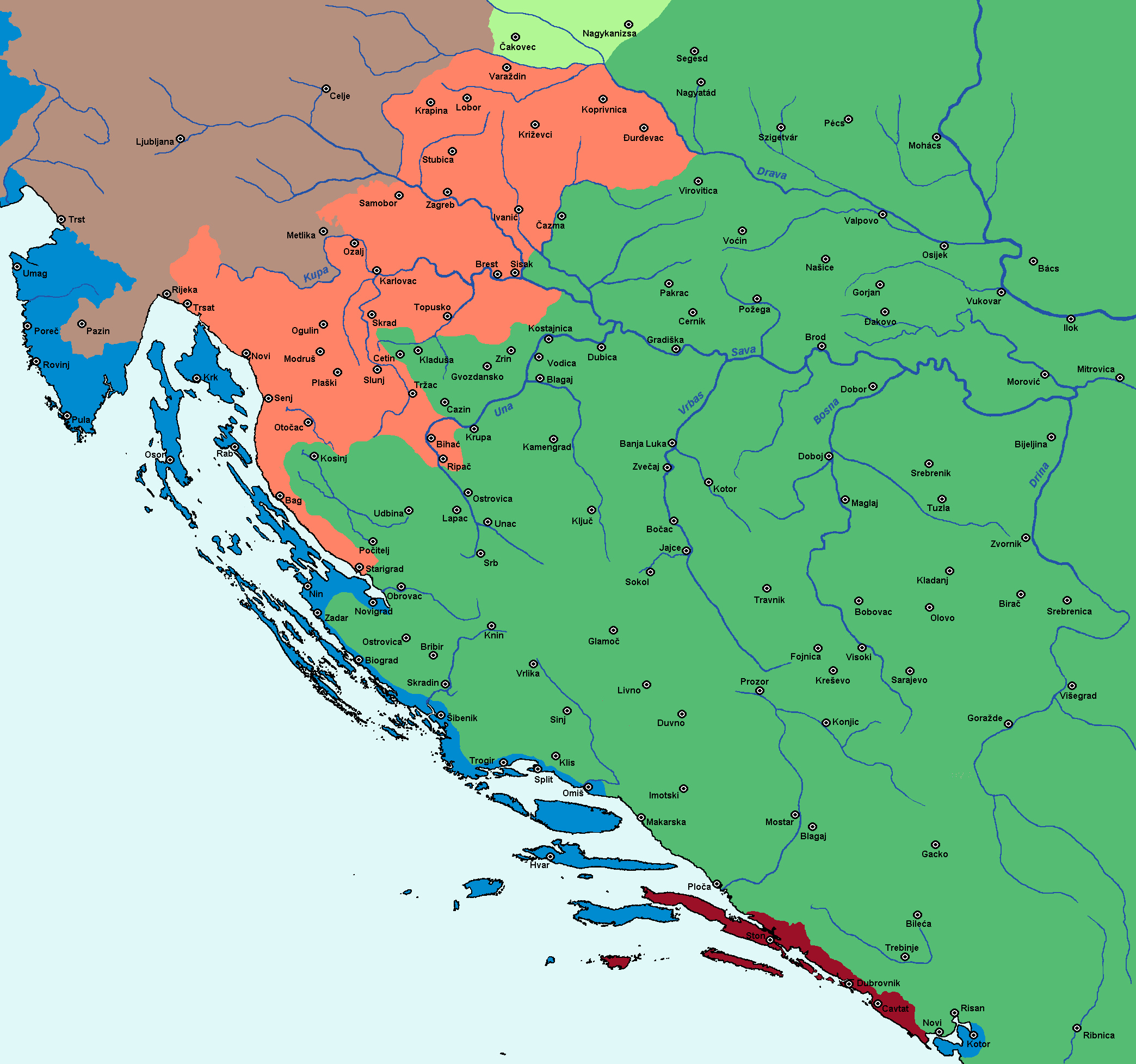 Kingdom of Croatia, Kingdom of Hungary, Ottoman Empire, Archduchy of Austria, Ragusa, and Venice in 1591 Kingdom of Croatia Ottoman Empire Republic of Venice Archduchy of Austria Republic of Ragusa Kingdom of Hungary